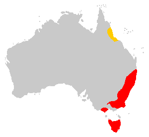 Dasyurus maculata range (two sub-species)